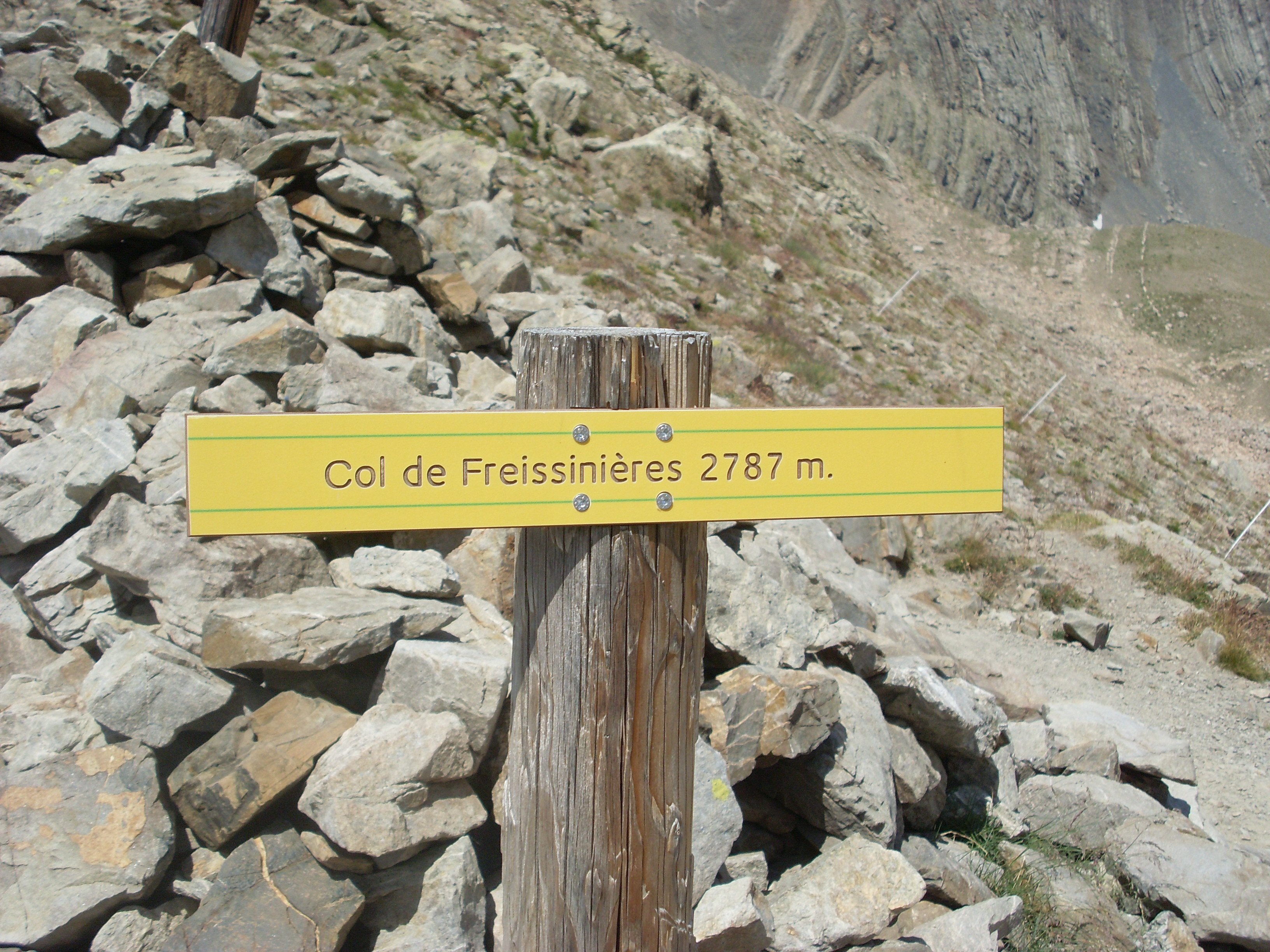 col de freissinière.